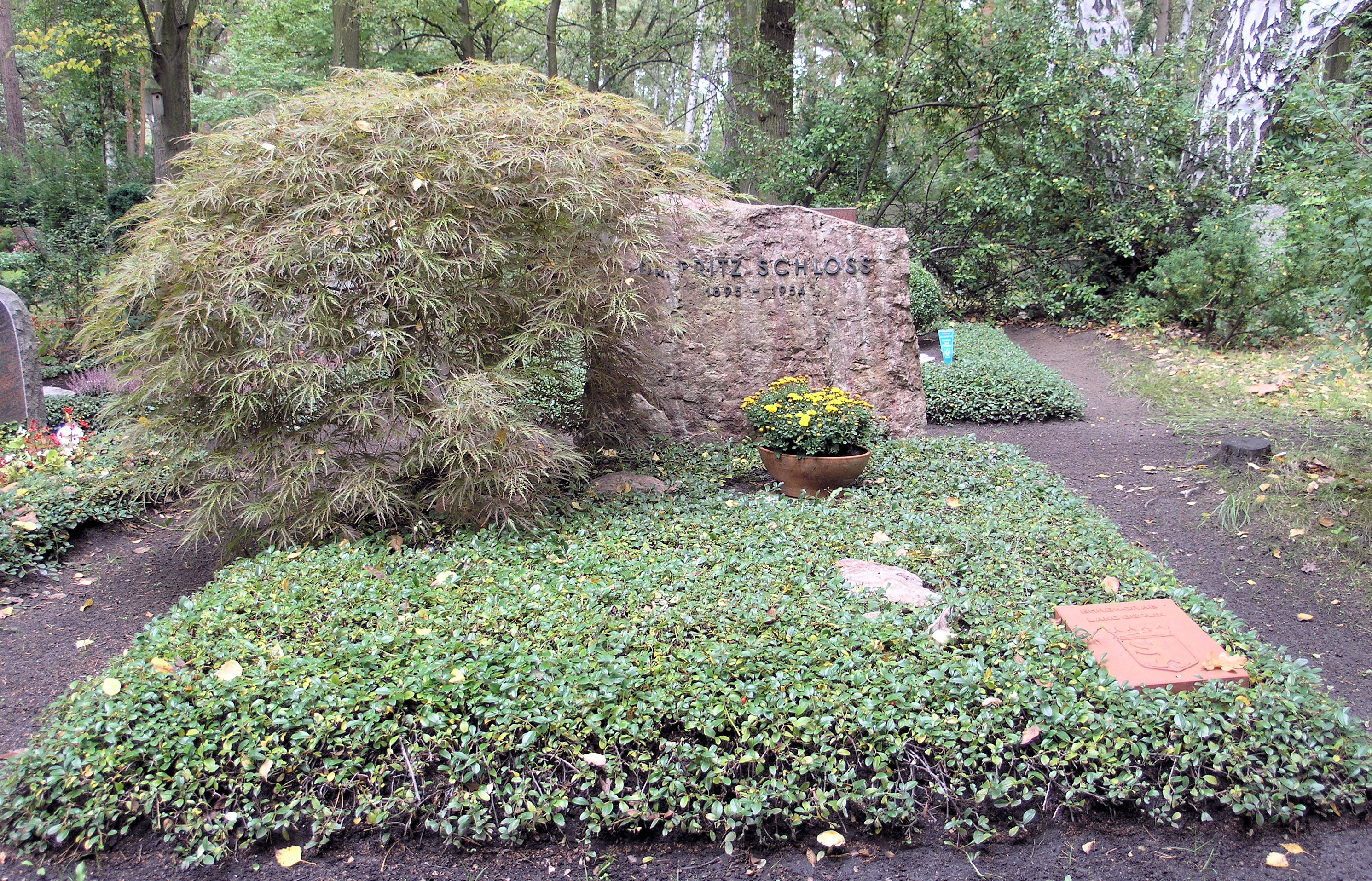 "Ehrengrab" (grave of honor), Fritz Schloss, Potsdamer Chaussee 75, Berlin-Nikolassee, Germany Koordinate:52°25′23″N 13°12′38″E / 52.42306°N 13.21056°E